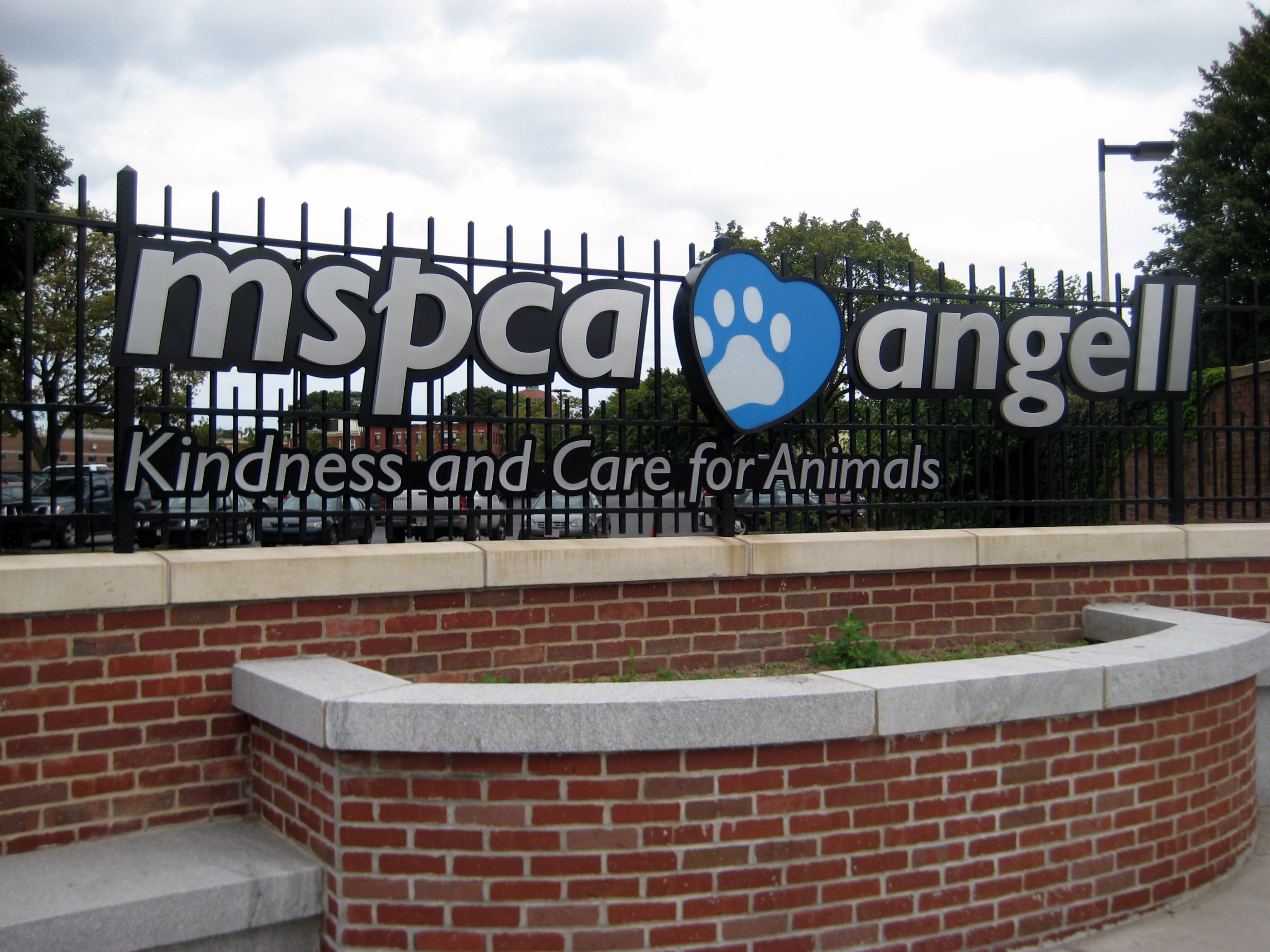 Sign outside MSPCA-Angell on South Huntington Ave in Jamaica Plain, Massachusetts. September 2008 photo by John Stephen Dwyer